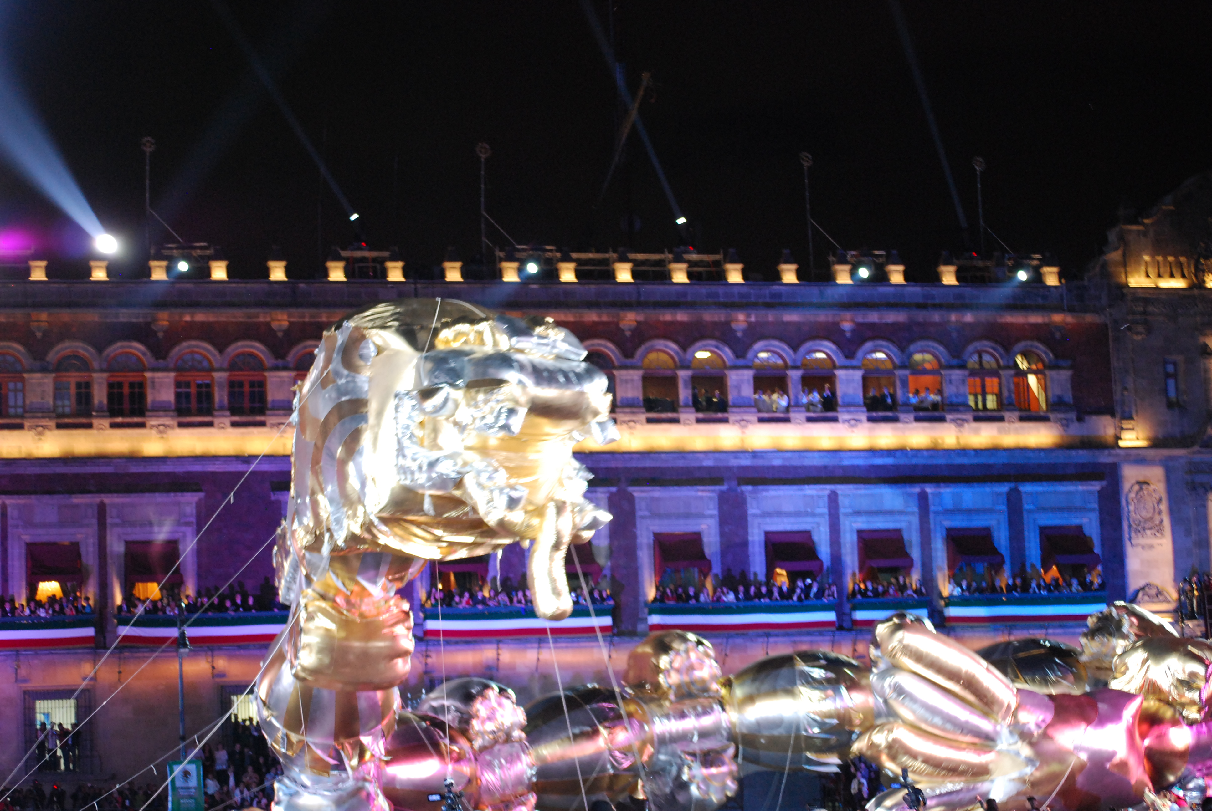 Balloon figure of Quetzalcoatl in parade in the Zocalo during Grito 2010